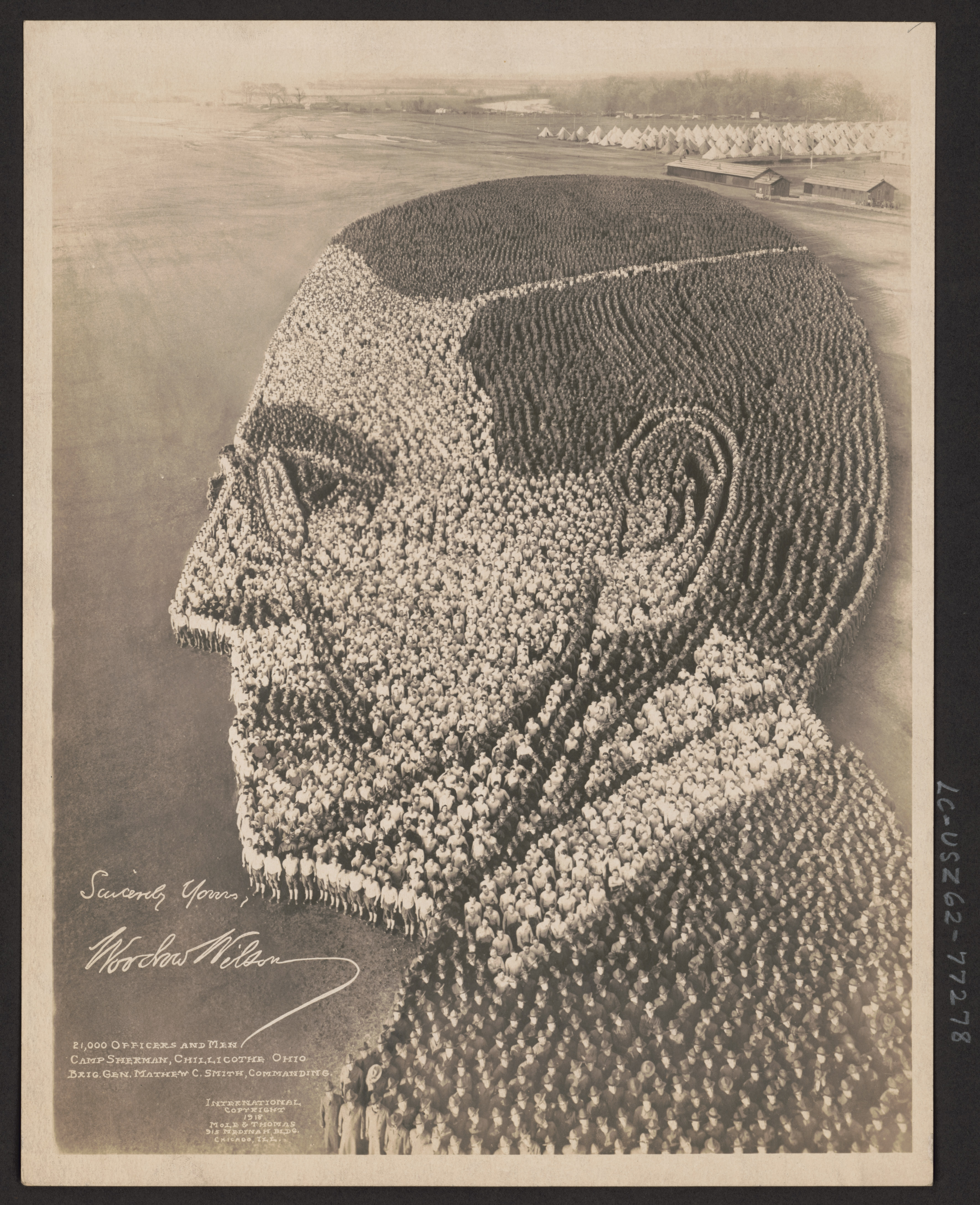 Title: Sincerely yours, Woodrow Wilson 21,000 officers and men, Camp Sherman, Chillicothe, Ohio, Brig. Gen. Mathew C. Smith, commanding / / Mole & Thomas, 915 Medinah Bldg., Chicago, Ill. Abstract/medium: 1 photograph : gelatin silver print ; sheet 36 x 28 cm, mount 46 x 36 cm.